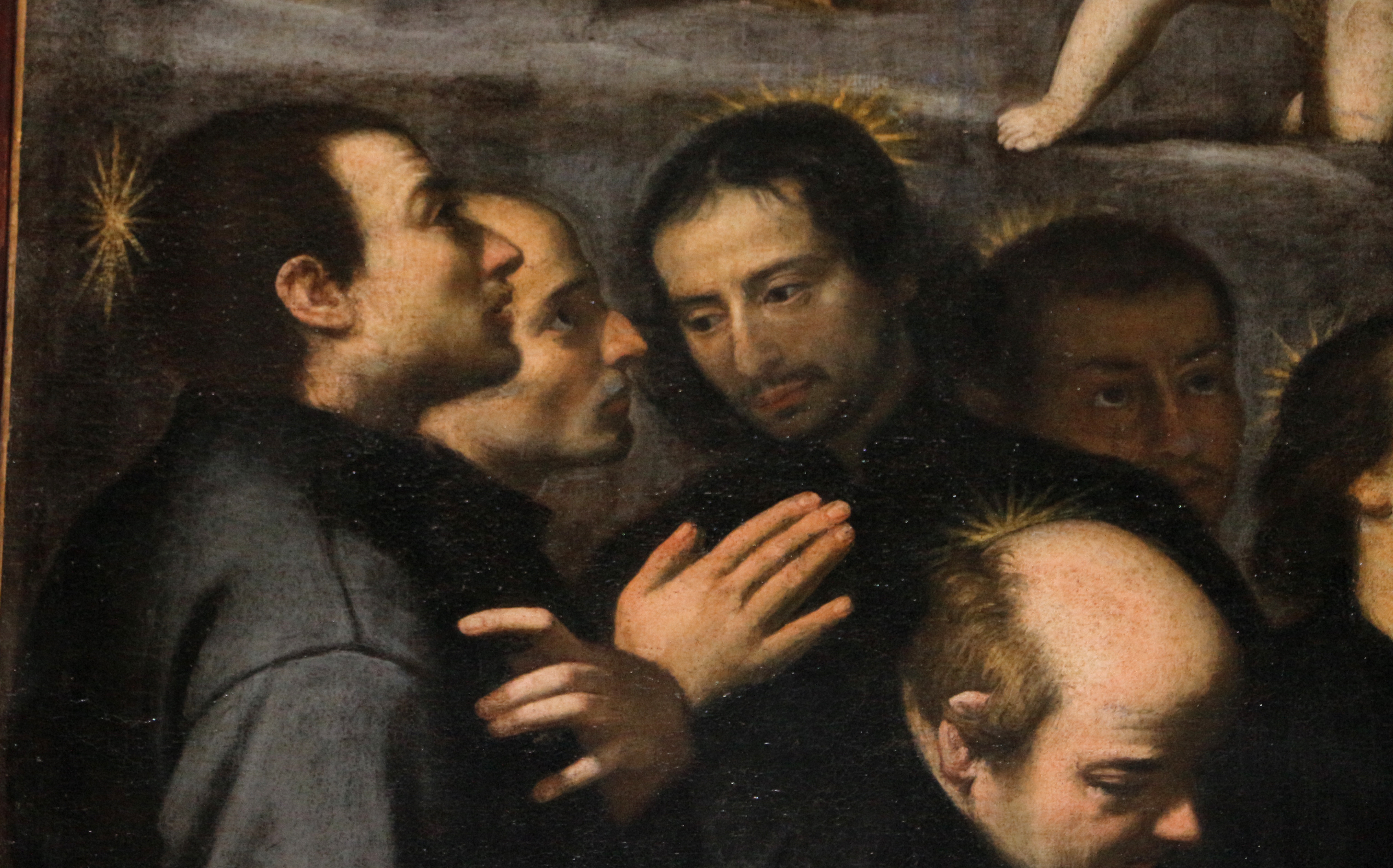 Santa Maria ad Antella